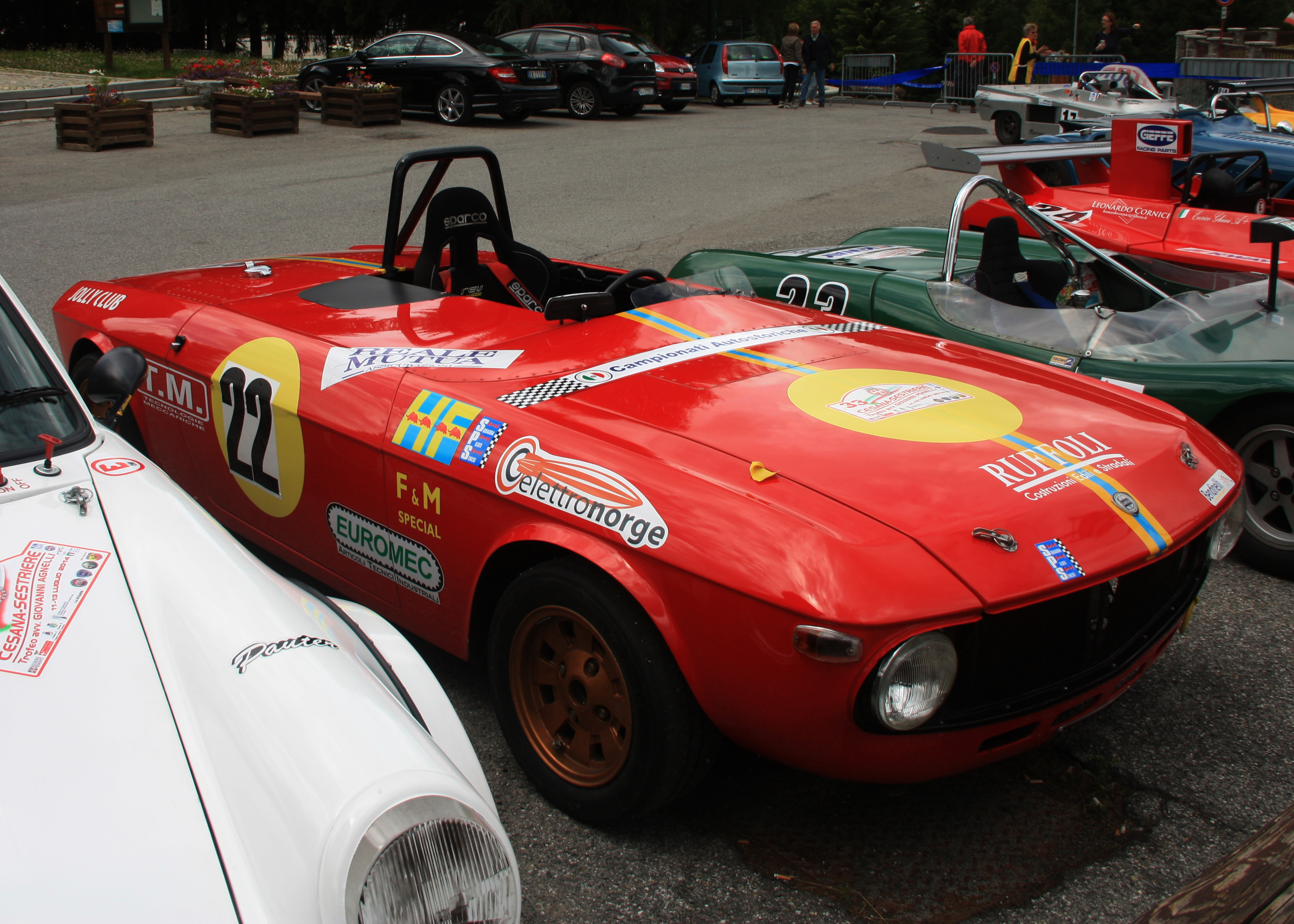 Lancia Fulvia Barchetta "F&M Special" at the 33rd Cesana-Sestriere hillclimb, 13 July 2014.